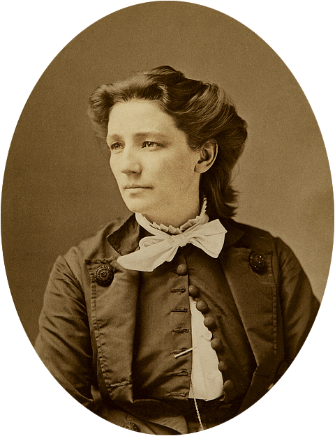 Portrait photograph of Victoria Claflin Woodhull